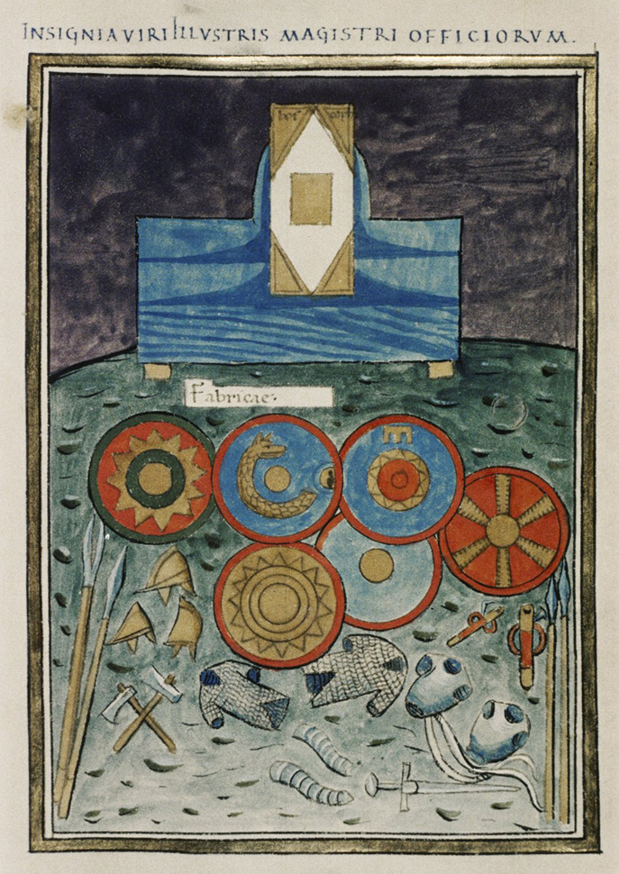 Magister Officiorum (Eastern Empire) from Notitia dignitatum, a parchment manuscript held by the Bodleian Library, Oxford Shelfmark: MS. Canon. Misc. 378